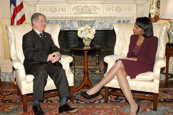 Former Lebanese President Amine Gemayel during a visit to US Secretary of State Condoleezza Rice in February 2007